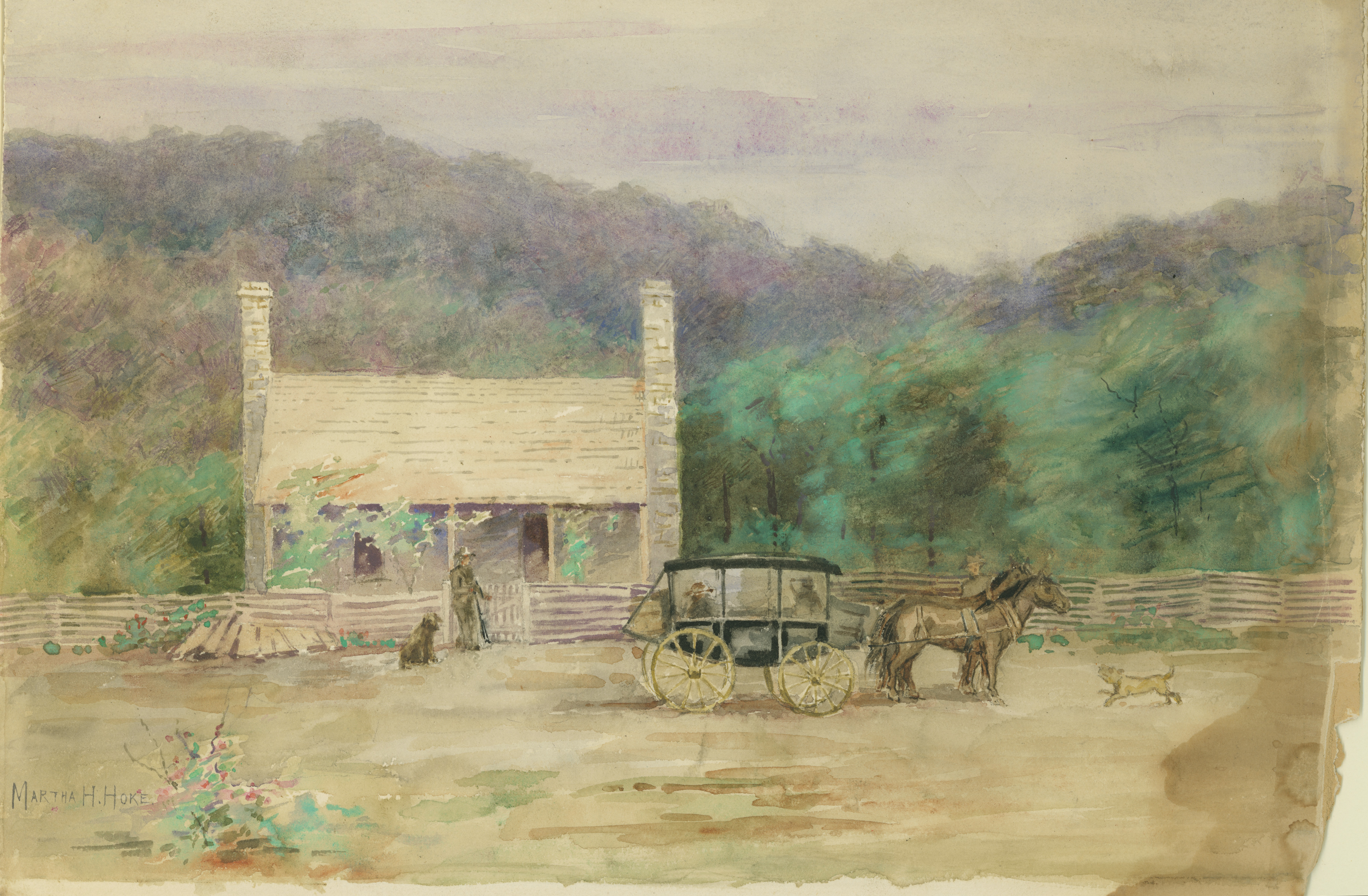 Watercolor painting of Elkhorn Tavern at Pea Ridge, Arkansas, the site of a Civil War battle in 1862. The area surrounding the tavern served as the Union army's main supply camp and the tavern itself was used as a field hospital and Union headquarters.Title: Elkhorn Tavern, Pea Ridge, Arkansas